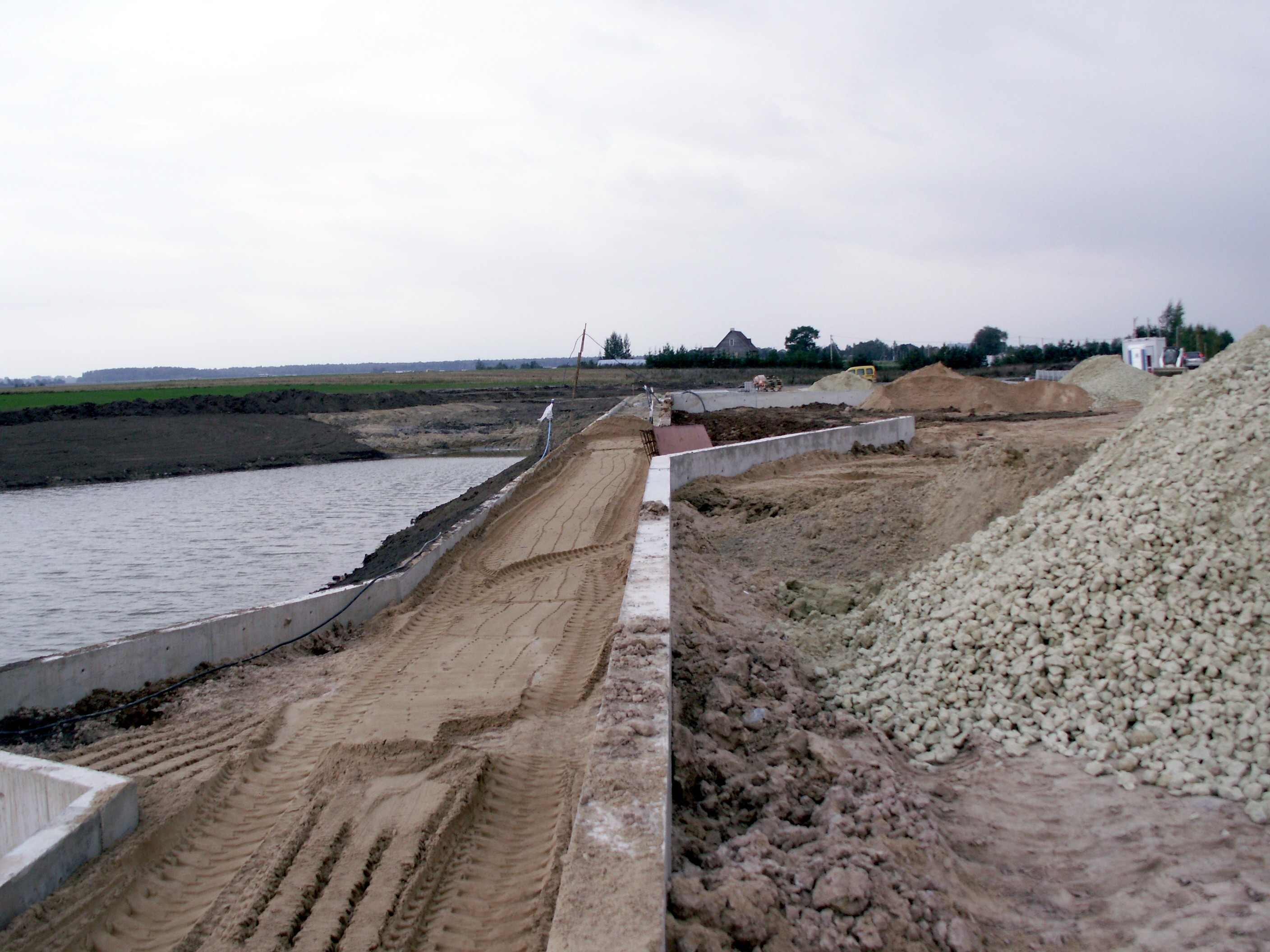 Construction of memorial for Battle of Saule, Jauniūnai, Joniškis district, Lithuania